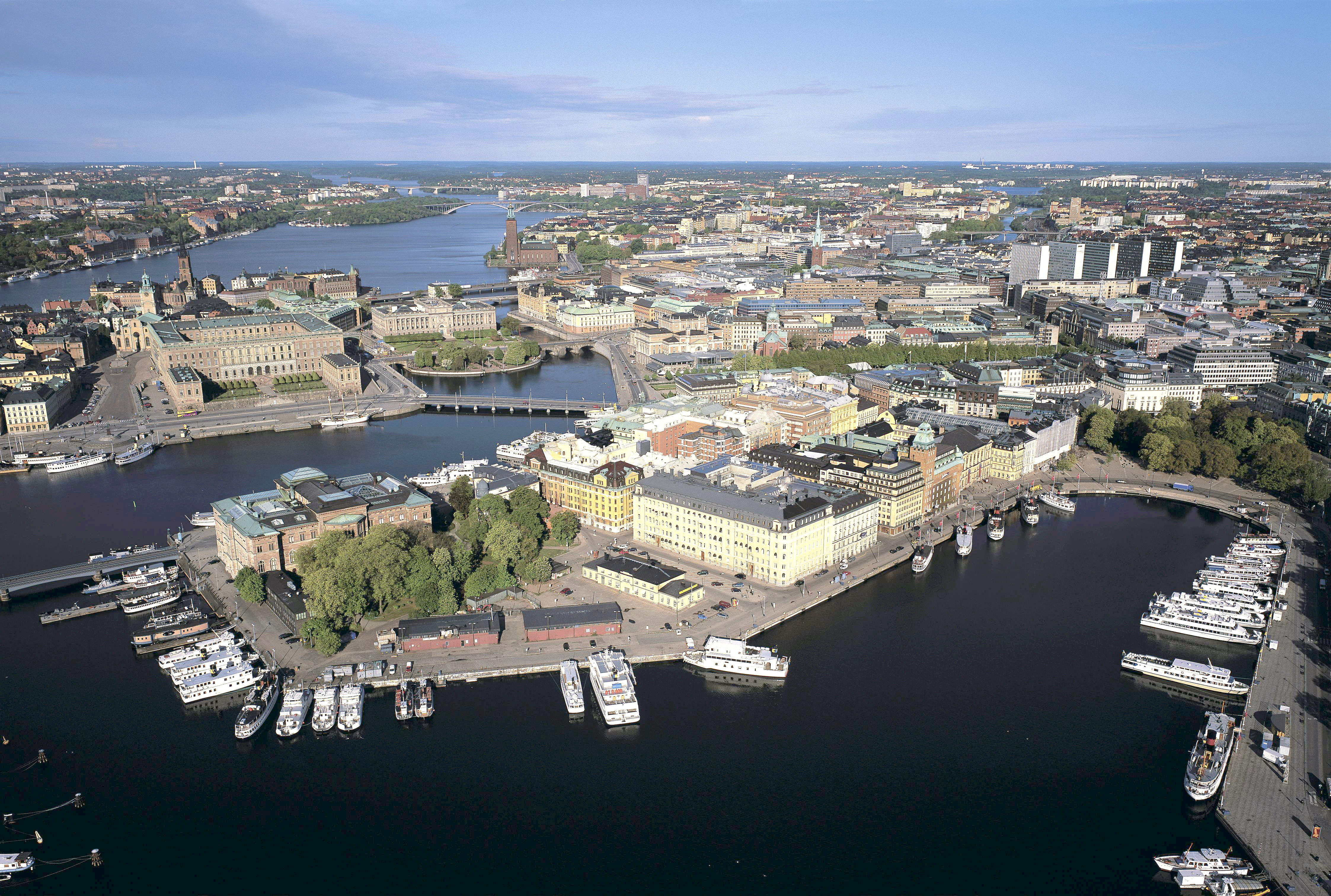 Blasieholmen at Nybroviken in Stockholm